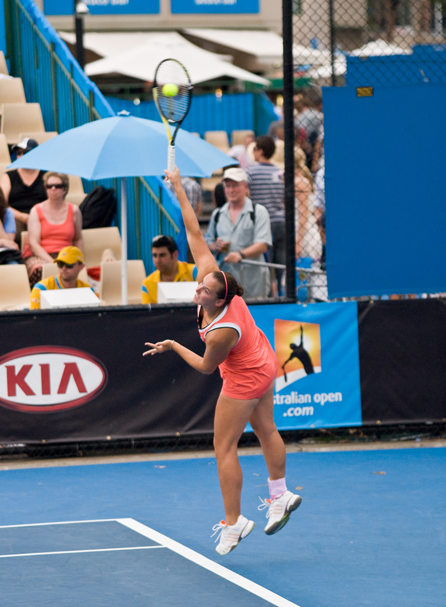 Jarmila Groth